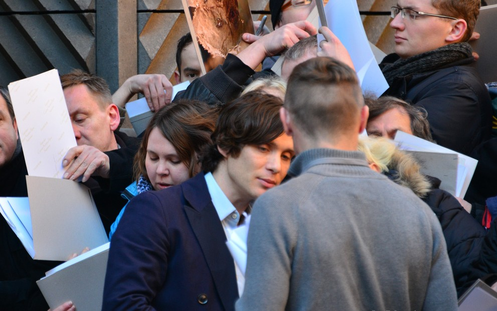 Aloft photo call during 2014 Berlinale International Film Festival held at the Grand Hyatt Hotel on Wednesday (February 12) in Berlin, Germany. Jennifer Connelly, Cillian Murphy & Melanie Laurent Promote 'Aloft' in Berlin